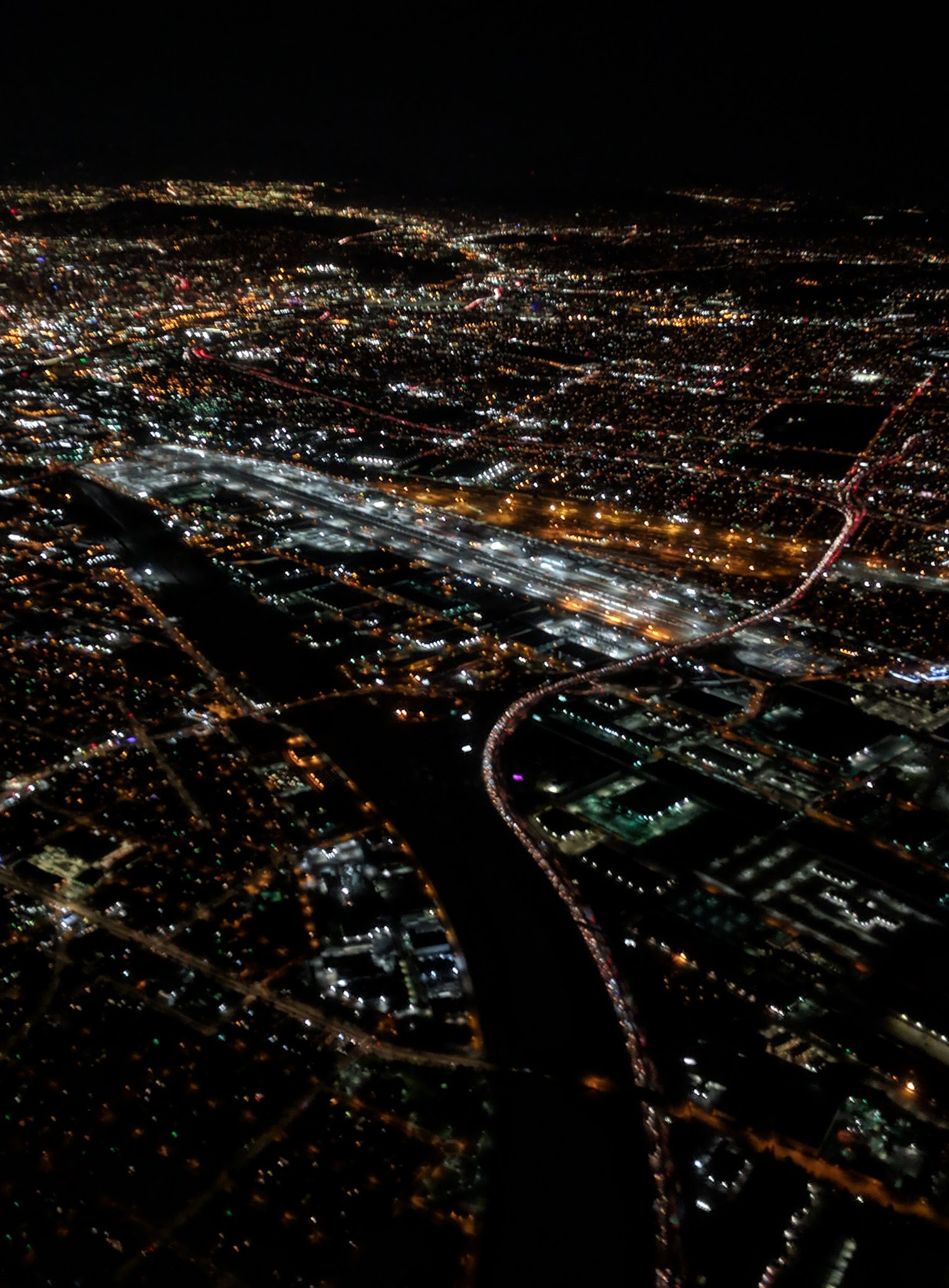 Night aerial view from the south of the Los Angeles River where the Long Beach Freeway, Interstate 710, converges on it; City of Commerce and vicinity